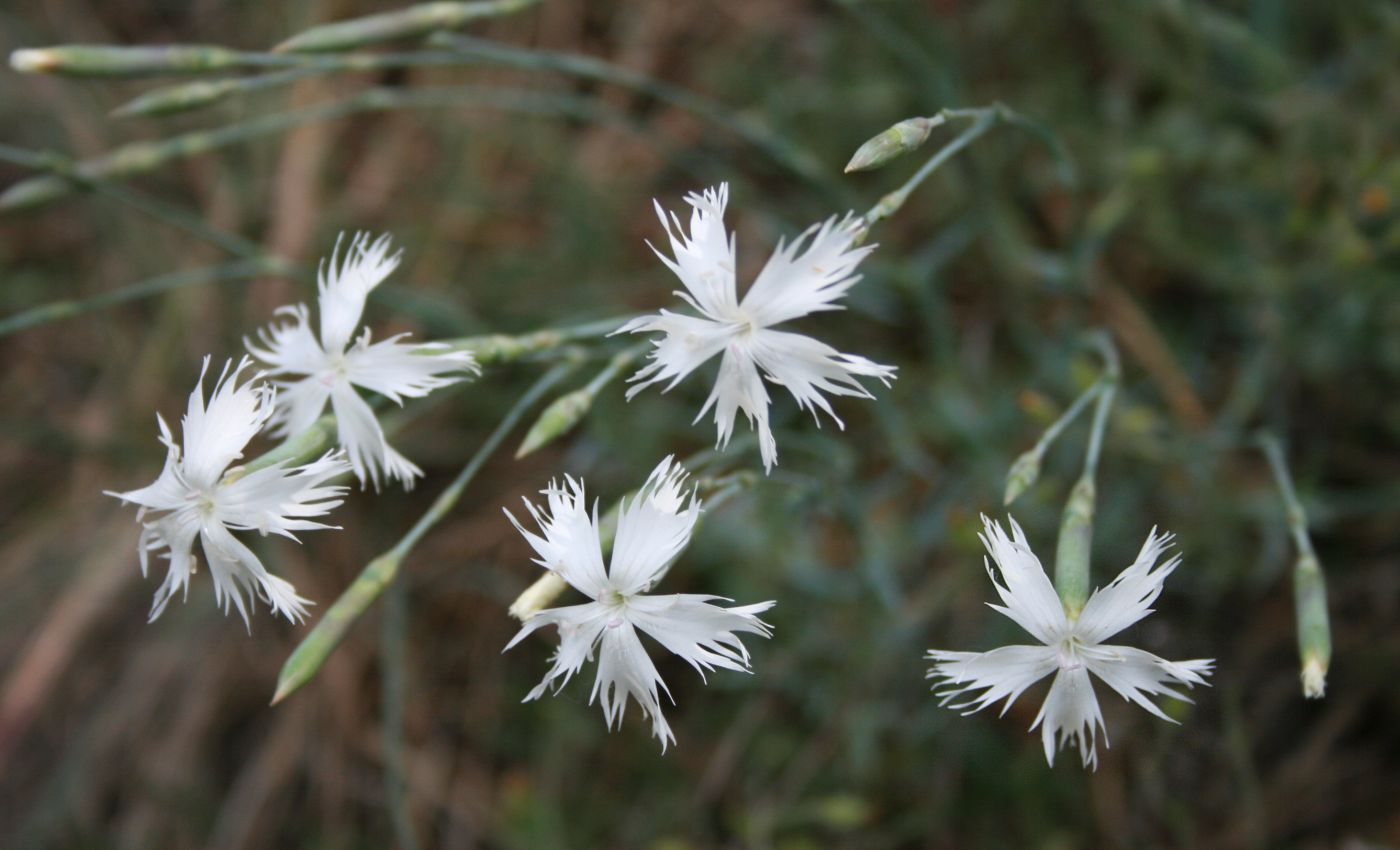 Dianthus plumarius subsp. regis-stephani, Nelkengewächse (Caryophyllaceae) - Ungarn/Magyarország/Hungary: Pest megye, W Pilisszentiván